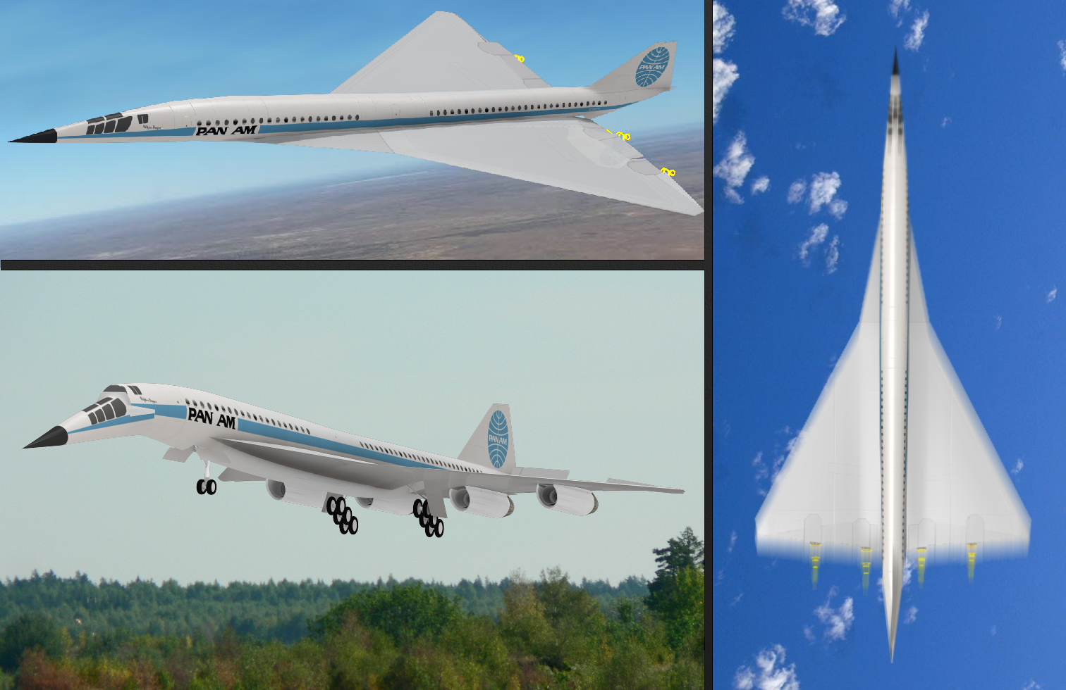 Illustration of a hypothetical Lockheed L-2000 in Pan Am livery